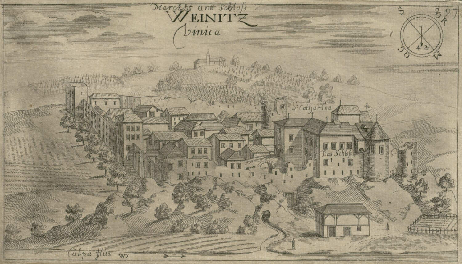 Vinica Castle